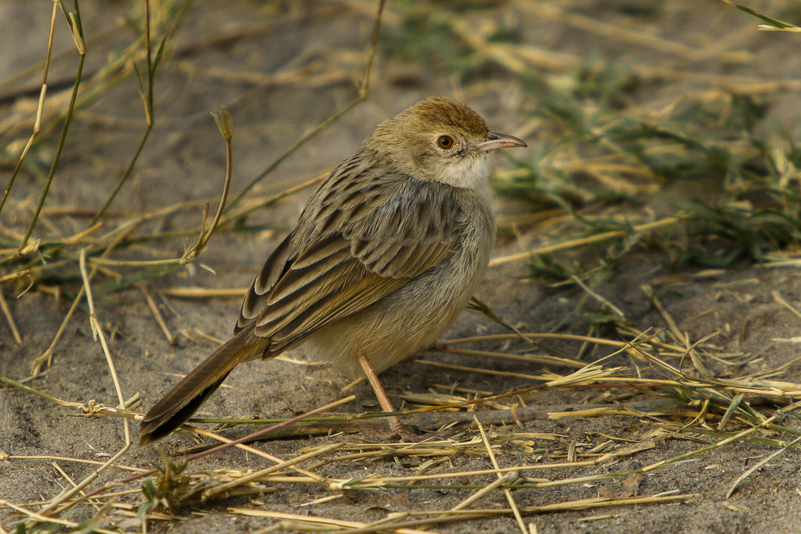 Rattling cisticola in the Kavango Region, Namibia